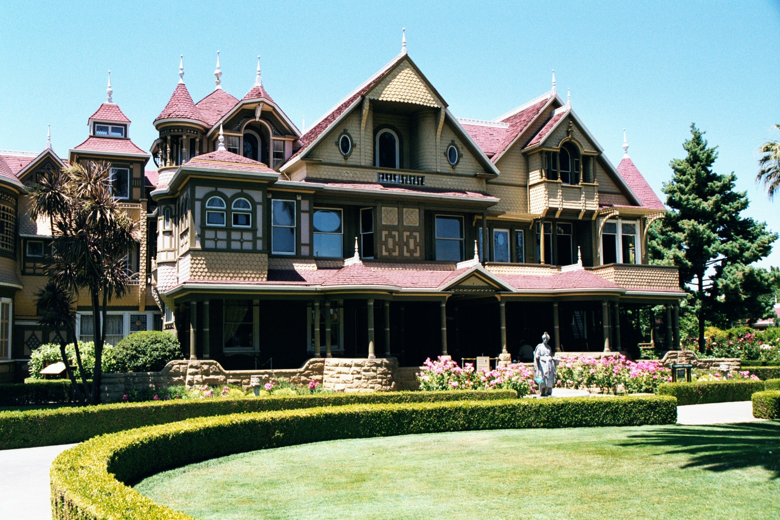 Front view of the Winchester Mystery House